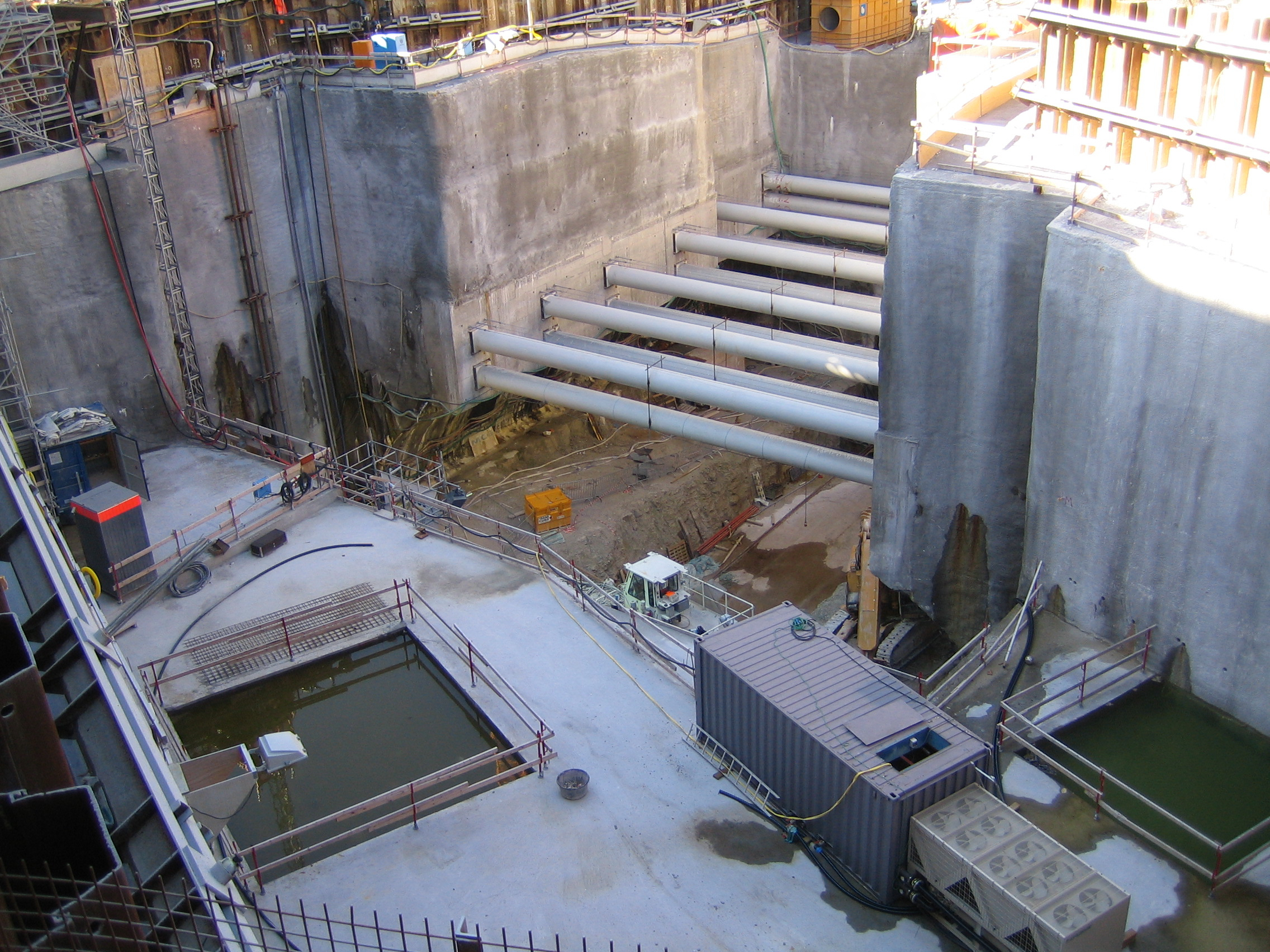 The south trench of Citytunneln build at Triangeln, Malmö, Sweden